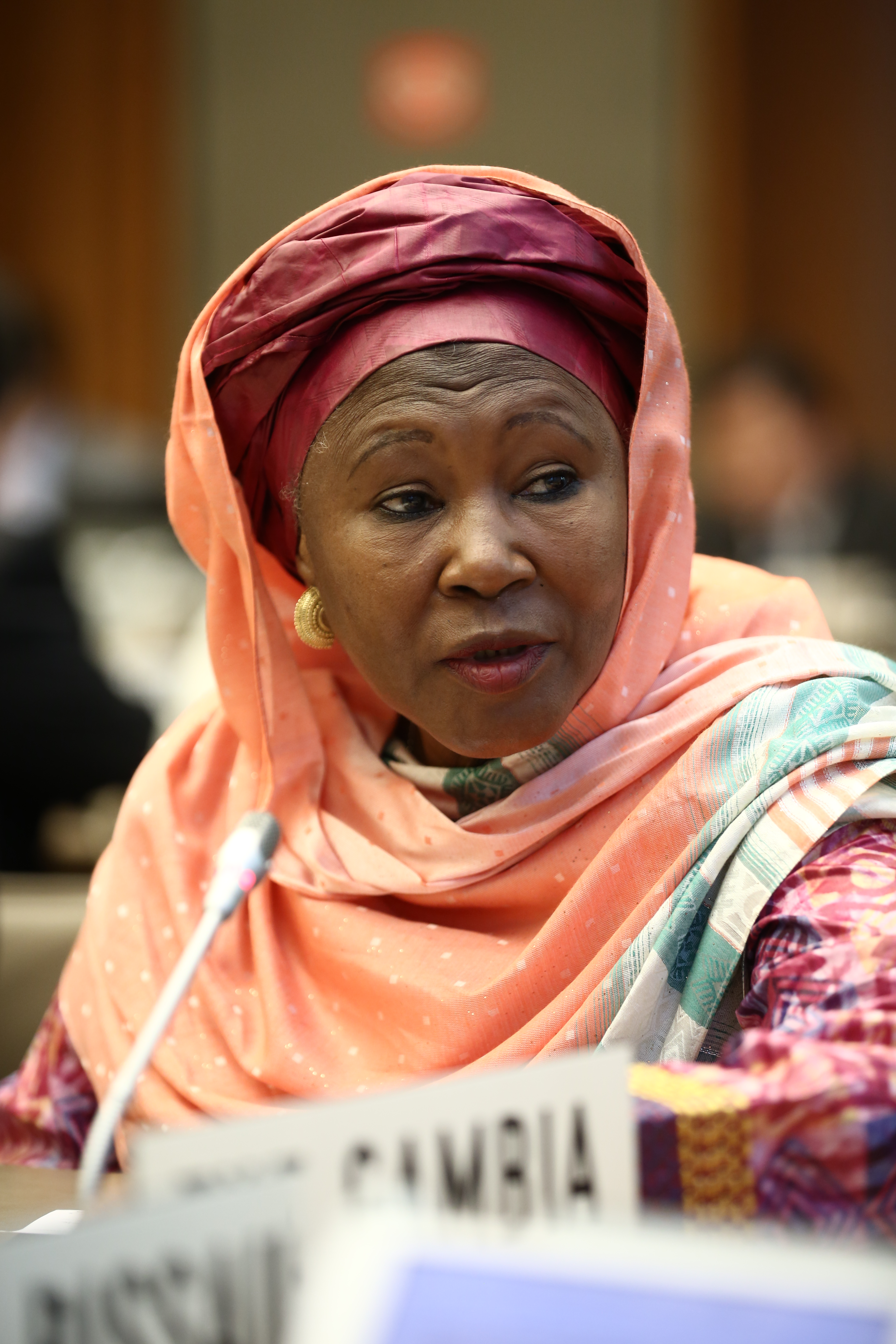 Fatoumata Tambajang at the 2017 Aid for Trade Global Review